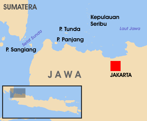 Location of Sangiang Island, Indonesia